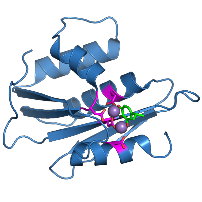 The ribonuclease H domain from the HIV-1 reverse transcriptase protein. The four active-site carboxylate residues are shown in magenta. Two bound manganese ions are shown as purple spheres. A bound inhibitor molecule, beta-thujaplicinol, is shown in green. Rendered from PDB 3K2P. Structure of HIV-1 reverse transcriptase with the inhibitor beta-Thujaplicinol bound at the RNase H active site. Himmel, D.M., Maegley, K.A., Pauly, T.A., Bauman, J.D., Das, K., Dharia, C., Clark, A.D., Ryan, K., Hickey, M.J., Love, R.A., Hughes, S.H., Bergqvist, S., Arnold, E. (2009) Structure 17: 1625-1635 PubMed: 20004166 PubMedCentral: PMC3365588